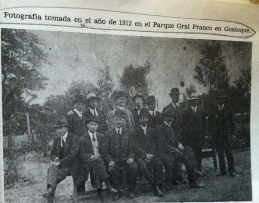 Photo reproduced for the book, "Guateque", by Elias Romero Plazas